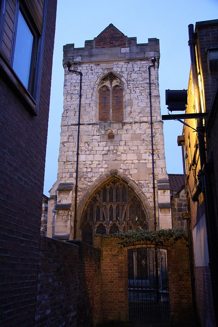 Holy Trinity tower. Tower of Holy Trinity church 854510